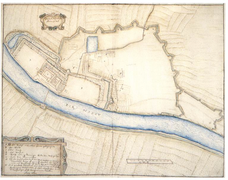 Malbork. Map of the defensive fortifications